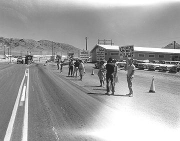 A small anti-nuclear protest group gathers on July 10, 1963, at the entrance to the Nevada Test Site.